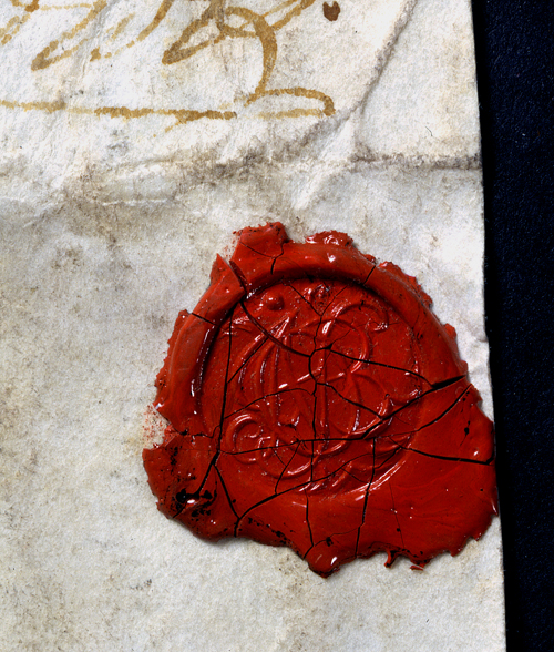 Wax seal of Nathaniel Wells, a Monmouthshire Justice of the Peace. This image is from the collections of The National Archives. Image no.4509718 .